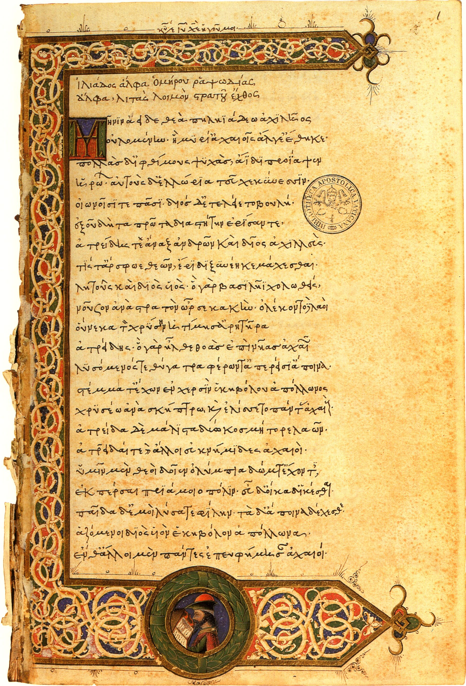 The beginning of Homer’s Iliad in ms. Biblioteca Apostolica Vaticana, Vaticanus Palatinus graecus 246, fol. 1r.